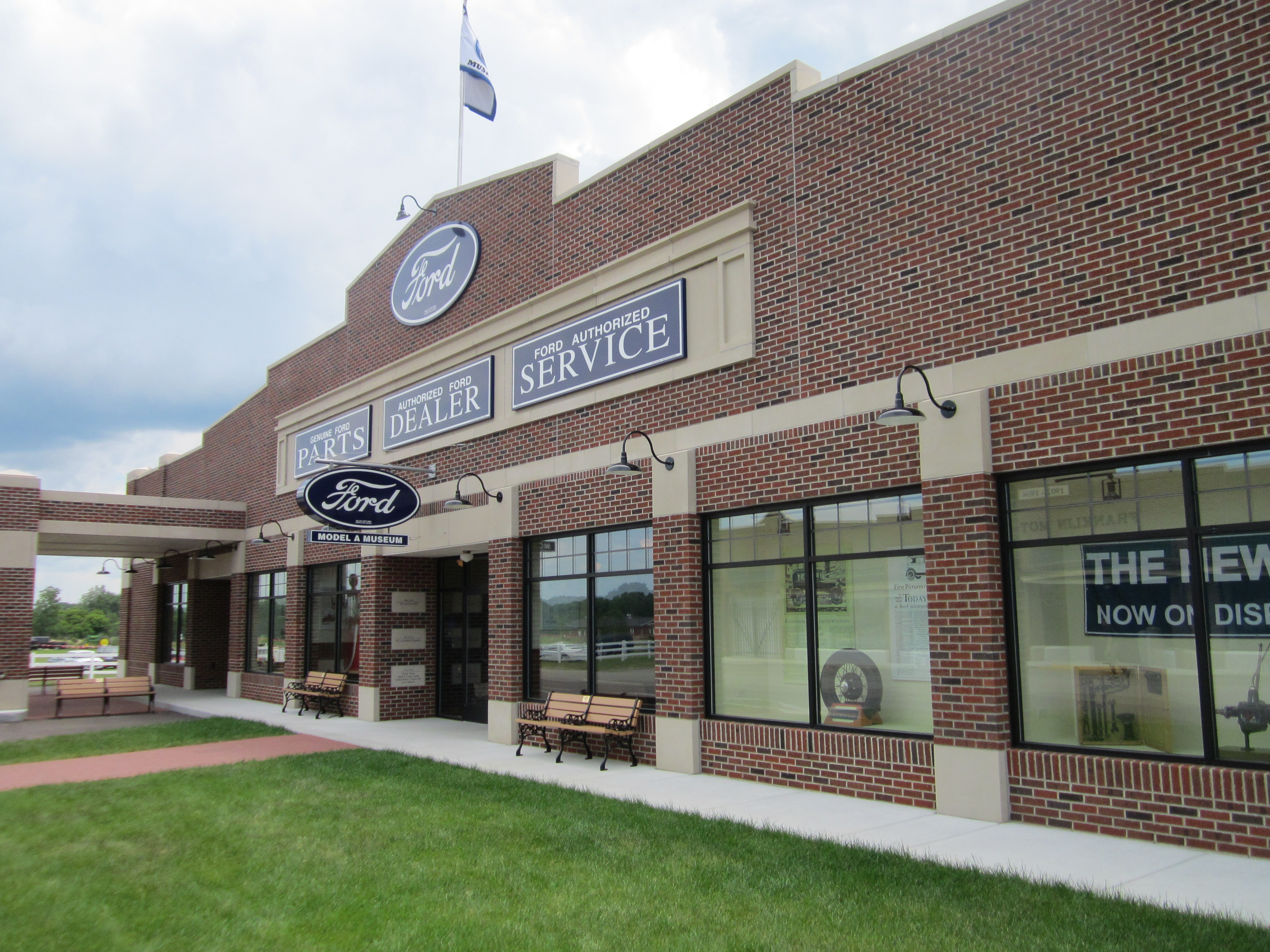 The new Ford Model A Museum designed to appear as a vintage dealership, complete with period gas pumps